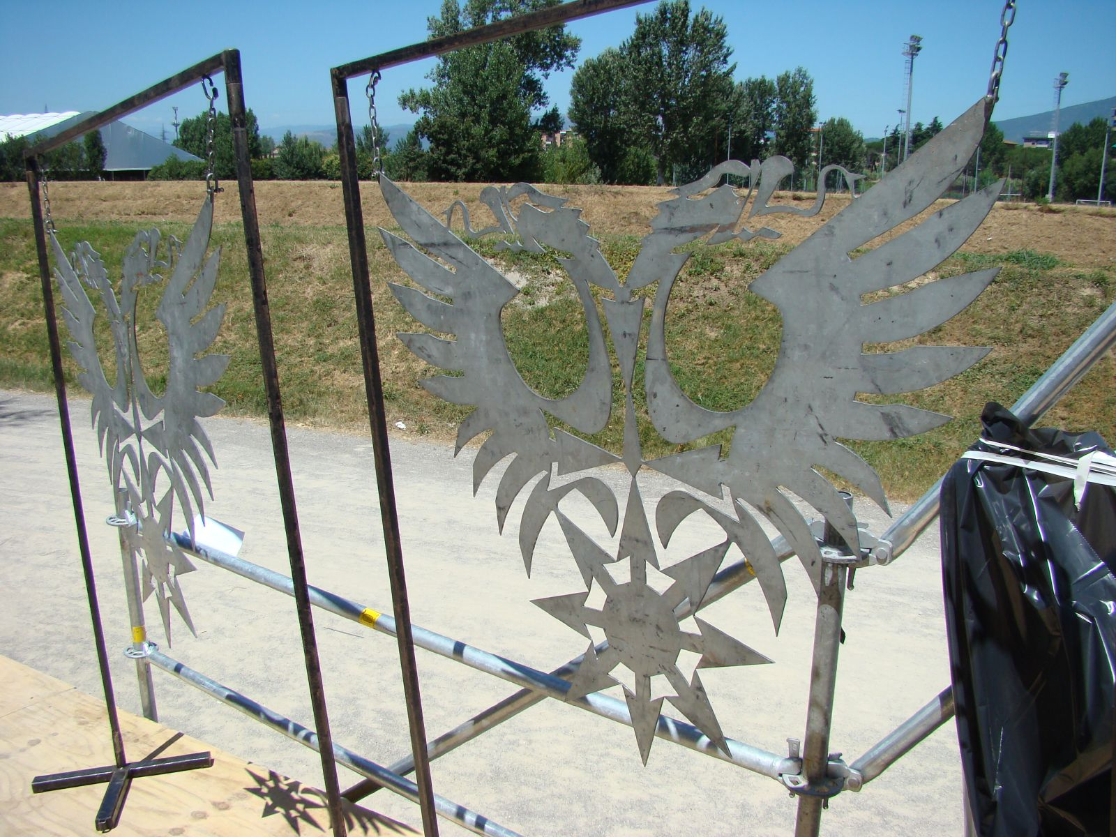 Behemoth scenography